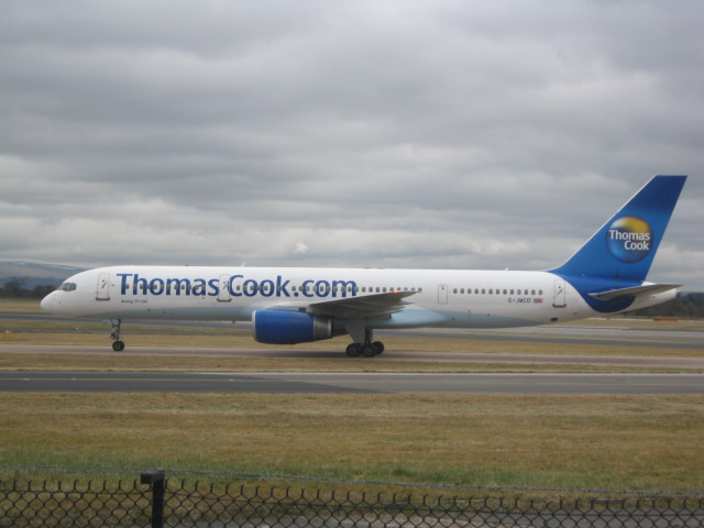 Thomas Cook Boeing 757-200 shortly after arriving Taken from Manchester Airport Aviation Viewing Park